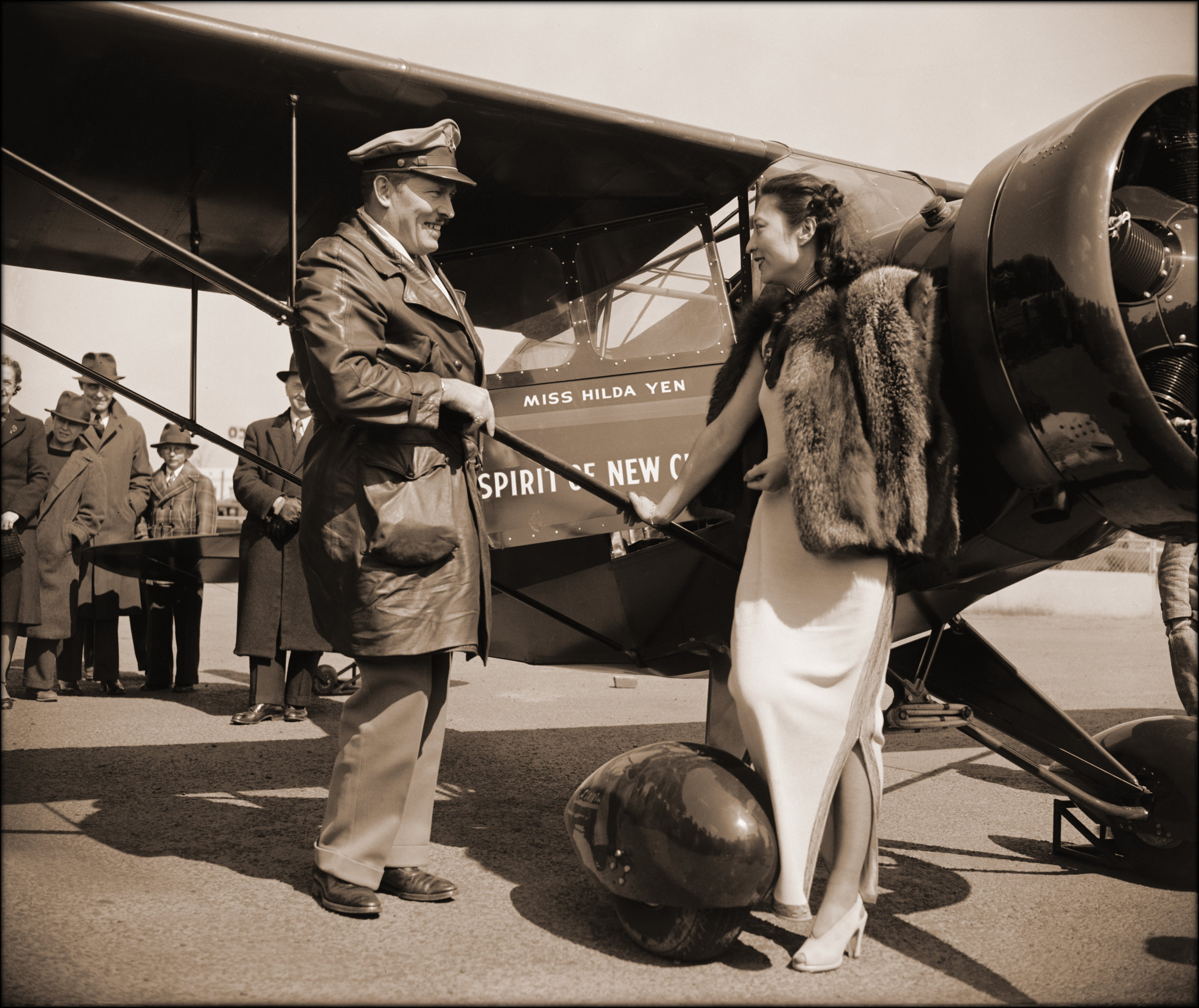 Entitled: Chinese Aviatrix Receives Gift Of New Plane From Colonel Roscoe Turner, Washington, D.C. [1939] Harris & Ewing [RESTORED] I did very little correction to this digitize image found in the US Library of Congress under Reproduction Number LC-DIG-hec-26410. The original glass plate negative from 1939 was assumed to be 4 x 5 inch standard. Hilda Yen, (1905-1970) came from a family of well to do and influential Chinese. Her father studied medicine at Yale and her uncle was a Chinese ambassador to the United States. She herself attended Smith College, and was a graduate of Yale in China. For a woman to have gone to college in those days, much less a Chinese woman, was already astounding. But not one to sit on her laurels, she also learned to fly airplanes. One has to remember that flying in the 1930's wasn't like aviation in the present day. There were no computers, very little in terms of cockpit aids, and pilots flew quite literally by the seat of their pants. It was a skill that few could attain and Yen was spoken of in the same breath with the likes of her contemporary, Amelia Earhart. She took her flying skill to China to instruct others on how to fly. She returned to the US to barnstorm and drum up charity aid for China, which at the time was already at war with Japan since 1937. In the picture above, she accepts a gift of an airplane, on behalf of the "Friends Of New China," from an American military officer, Colonel Roscoe Turner. Unfortunately, this plane almost killed her one month later, when she crashed while attempting to take off from a field near Montgomery, Alabama. Upon her recovery, she nonetheless continued to campaign and lobby on behalf of China until the end of the war.